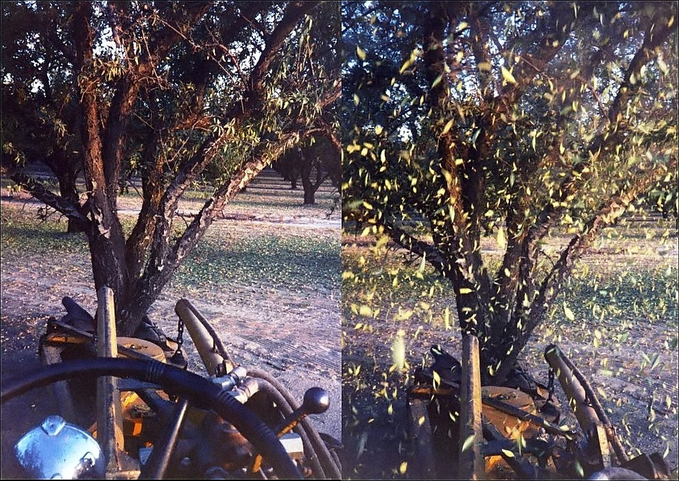 An almond shaker shaking a tree during harvest. The first image shows the shaker grabbing onto the tree, and the second shows the shaker knocking the almonds off the tree.